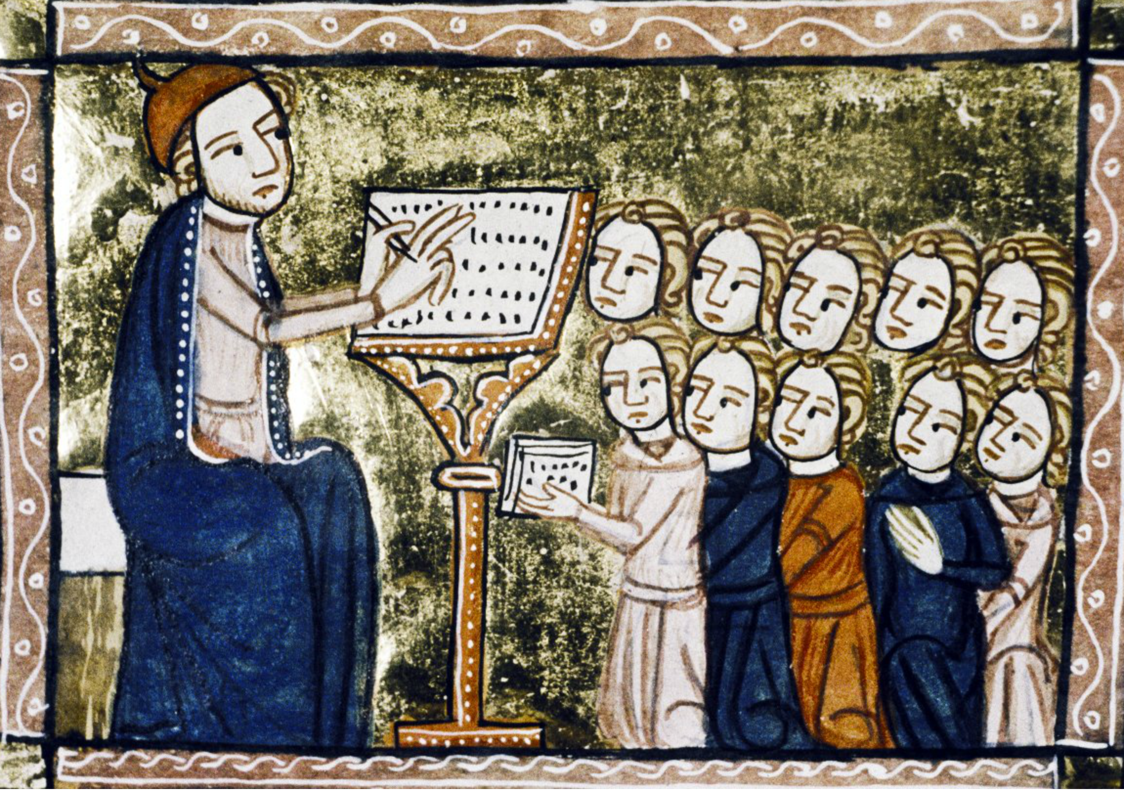 William of Nottingham lectures to a group of students at Oxford or Cambridge.